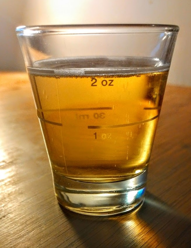 shot glass in imp. fl oz